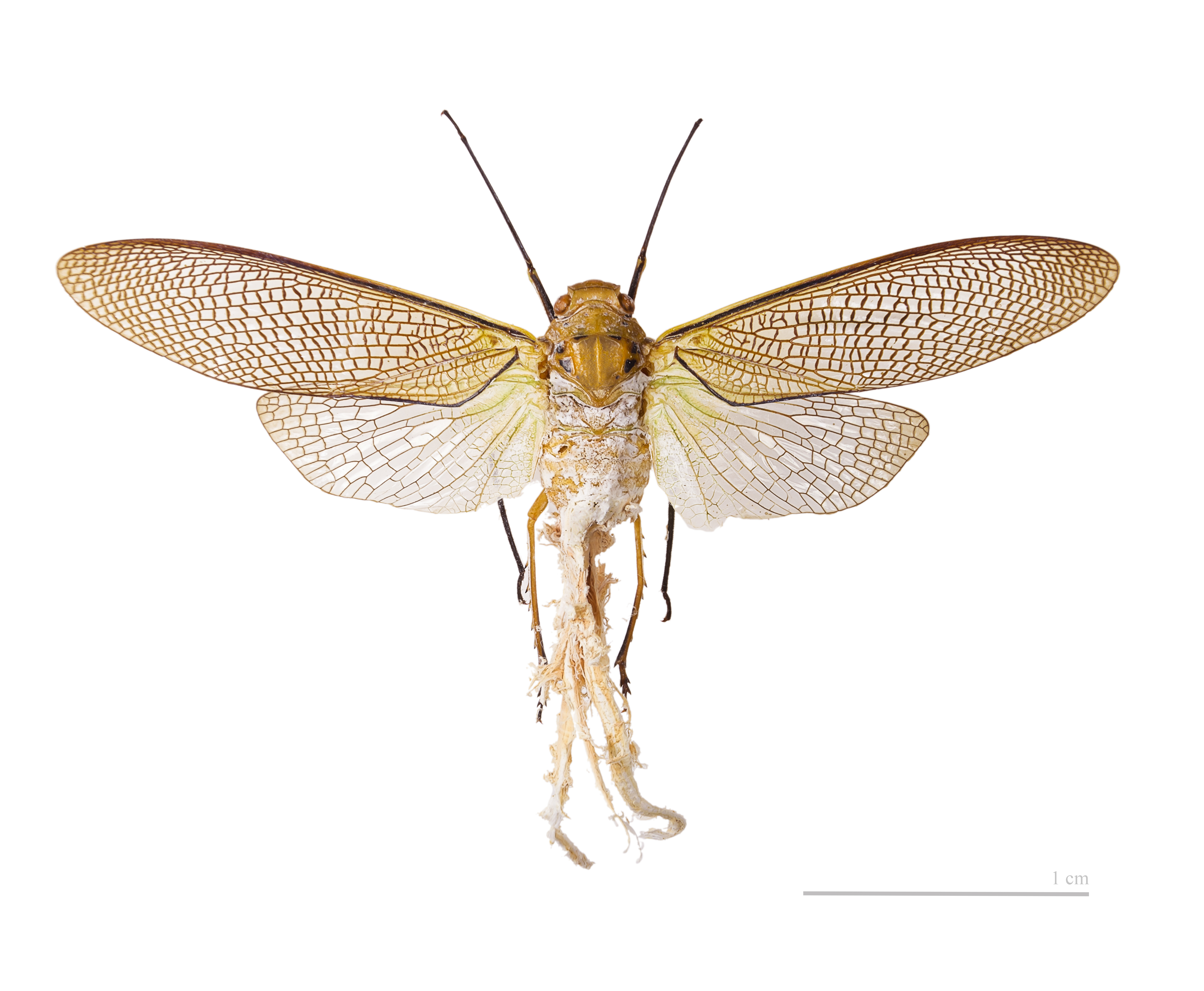 Dorsal side. Locality : Mt Singes, Kourou, French Guiana